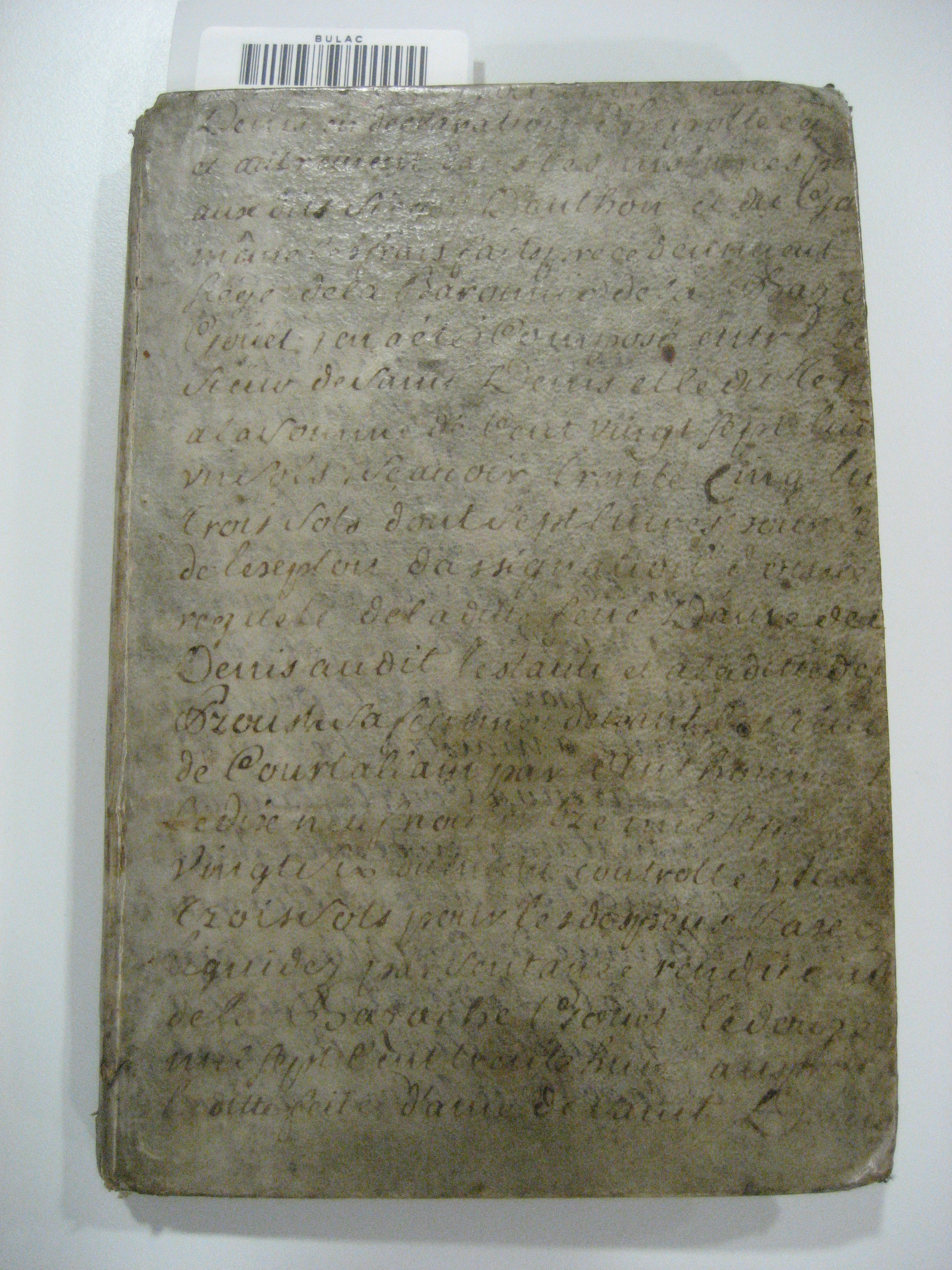 Vocabulaire Malgache/Francois, from the Abbot Chalan. Ile de France, Imprimerie Royale, 1773. First book printed in Mauritius. Collection BULAC, Paris